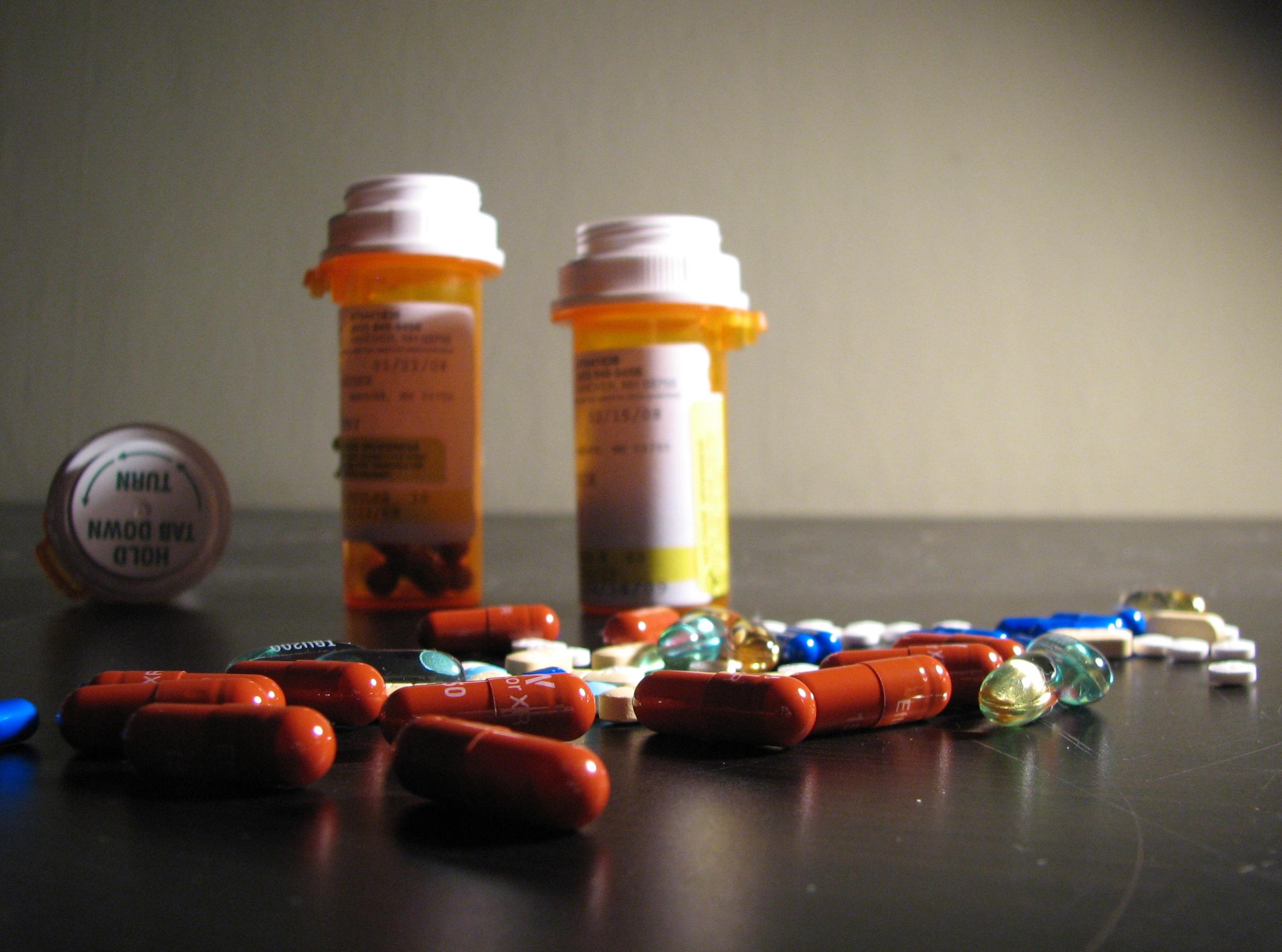 An assortment of drugs, including 150mg Effexor XR (by Wyeth Pharmaceuticals), 10mg dicyclomine (by Watson), 100 mg sertraline (generic), 25 mg Topamax (by McNeil), and 10 mg amitriptyline (generic) in addition to vitamin E gelcaps and some generic ibuprofen gelcaps.My Pharmacopia II.b